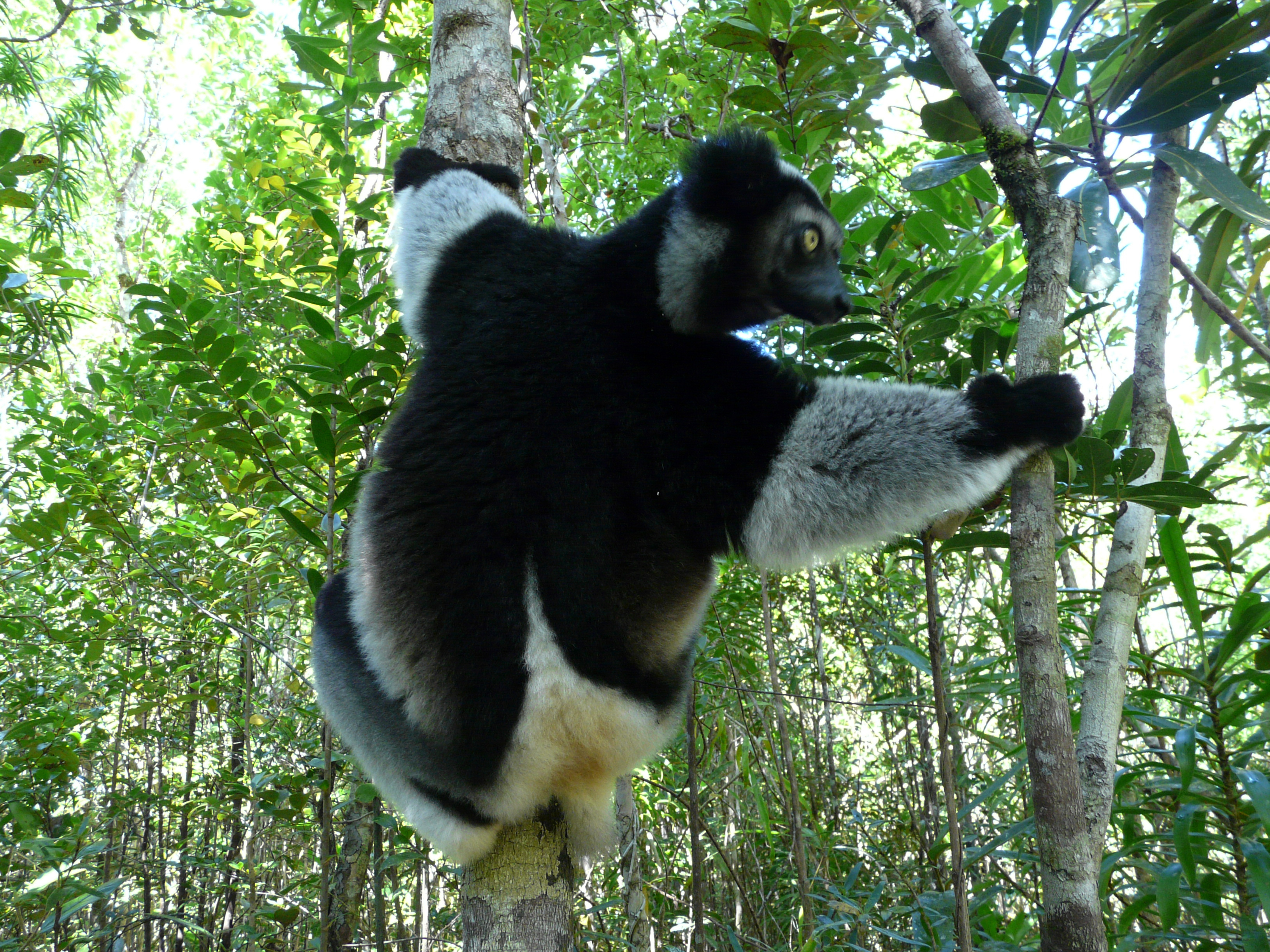 Indri